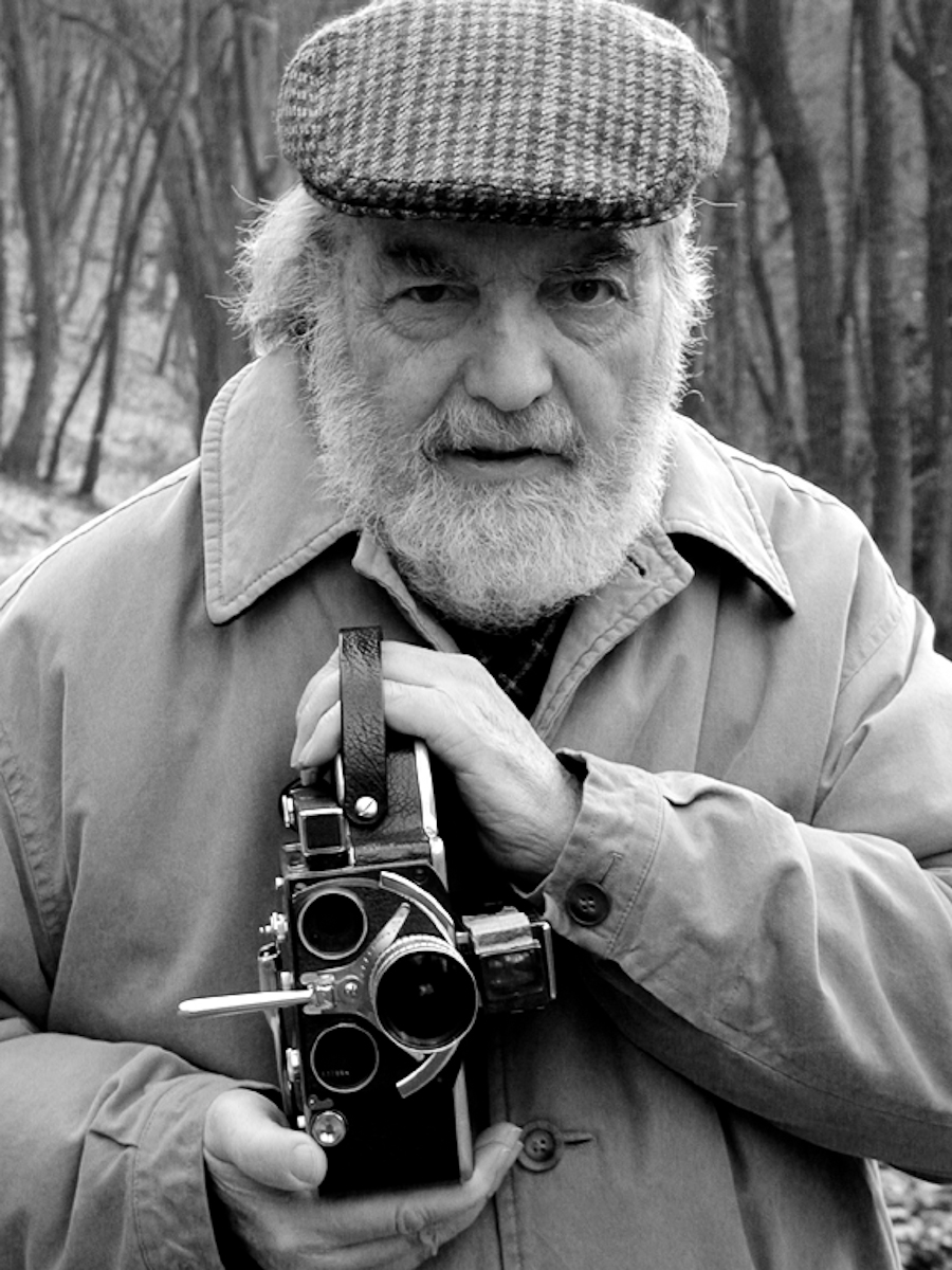 Osvaldo Bayer holding a Bolex 16mm camera used to film the documentary Los Cuentos del timonel of which he’s the protagonist.